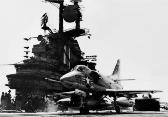 A U.S. Navy Douglas A-4B Skyhawk fighter (BuNo 142103) from Attack Squadron VA-95 Green Lizards on the catapult of the aircraft carrier USS Intrepid (CVS-11). VA-95 was assigned to Attack Carrier Air Wing 10 (CVW-10) aboard the Intrepid for a deployment to Vietnam from 4 April to 21 November 1966.